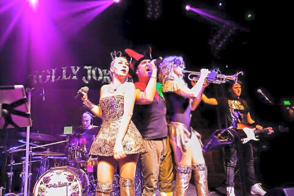 Jolly Joker Konsert Hall